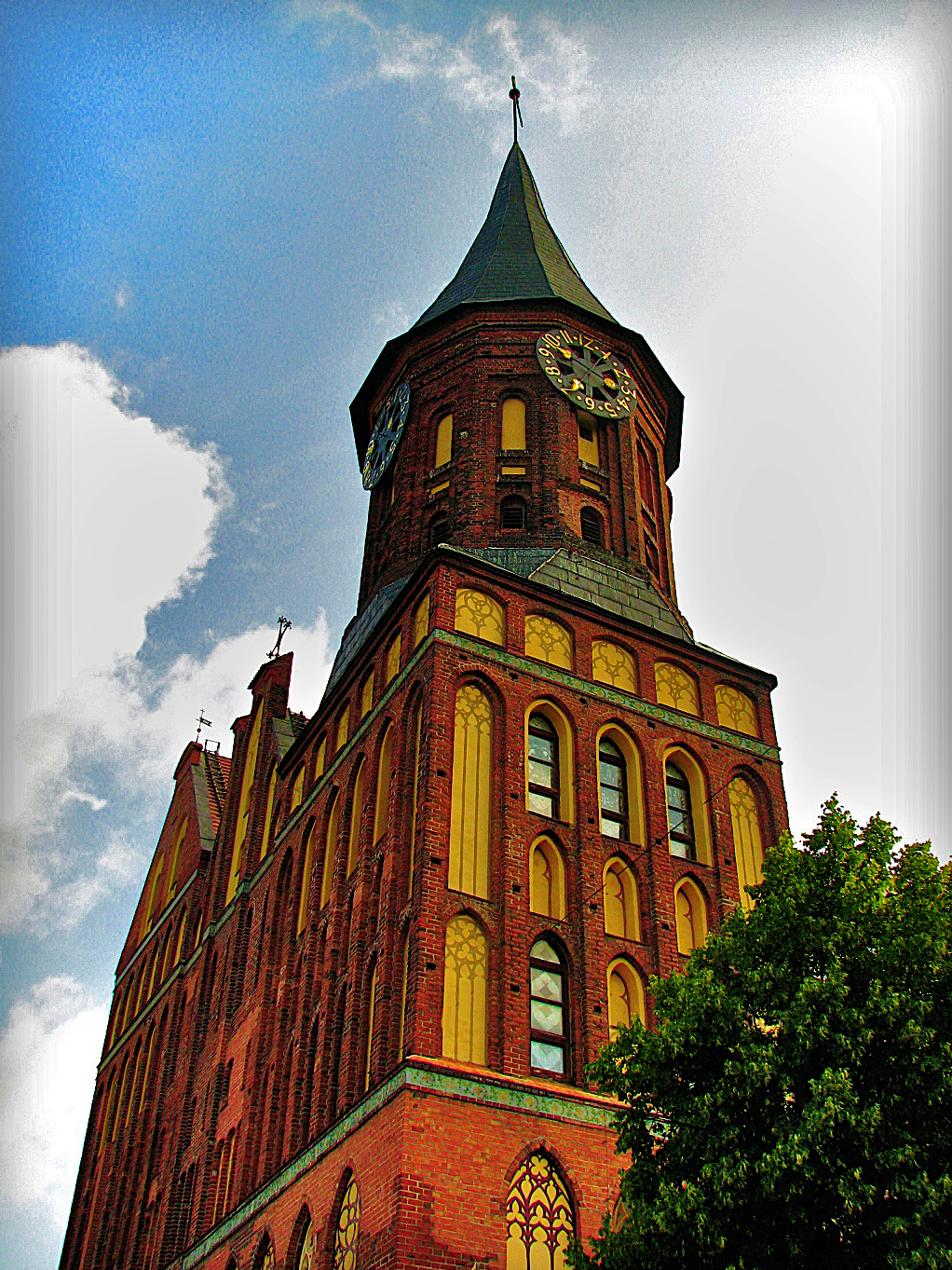 Königsberg Cathedral